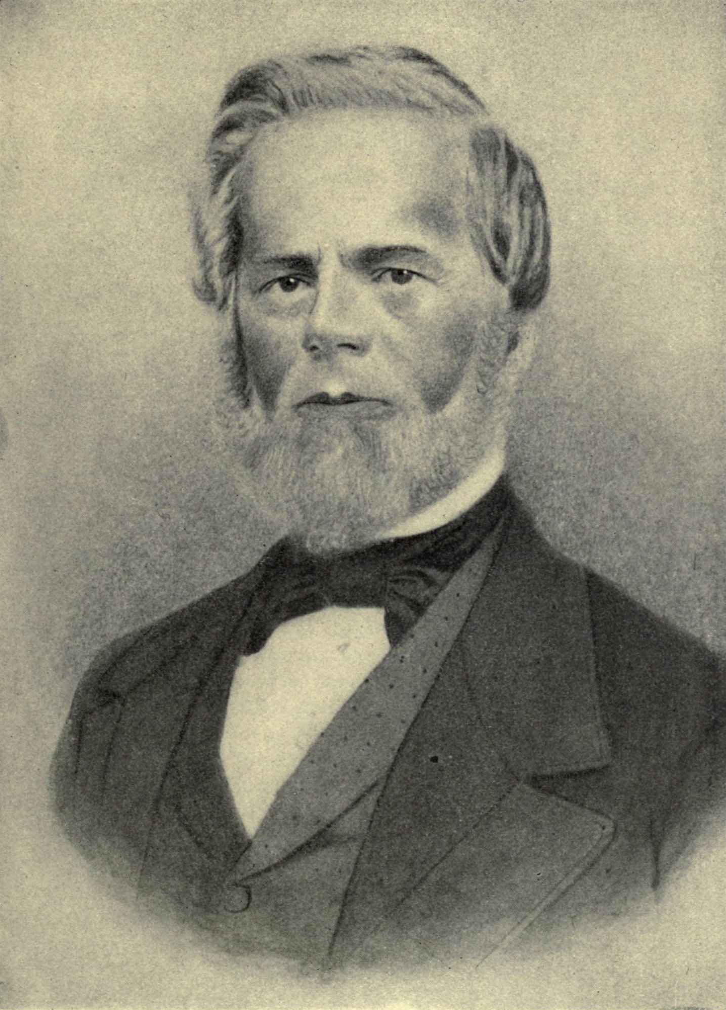 Phineas Parkhurst Quimby, New England "mental healer"